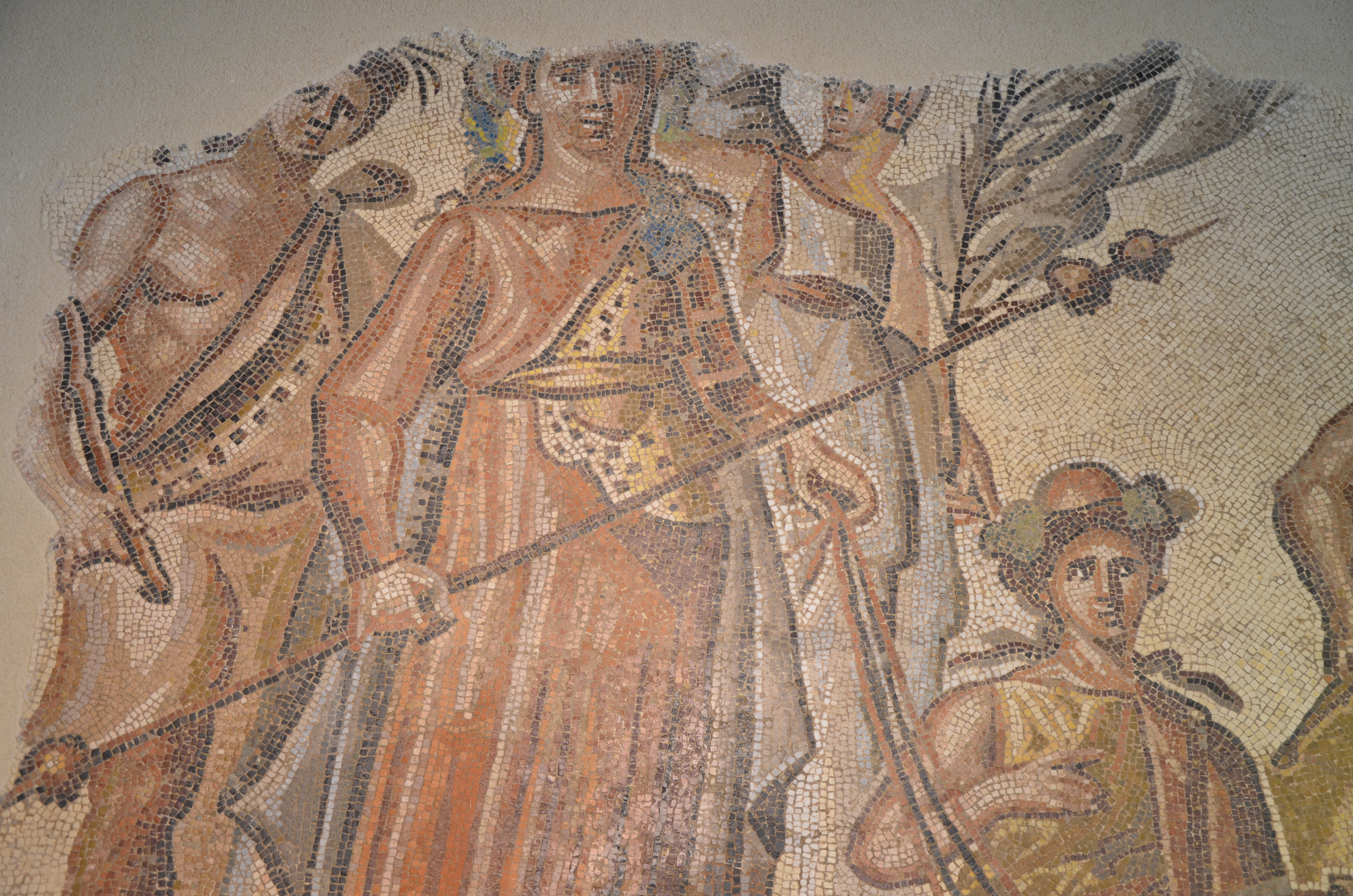 National Archaeological Museum of Spain, Madrid